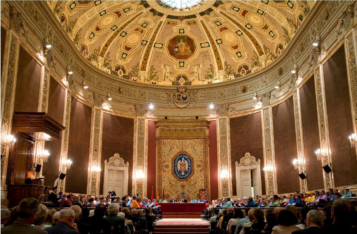 Photo taken at the Paraninfo Complutense during the opening of the Academic Year